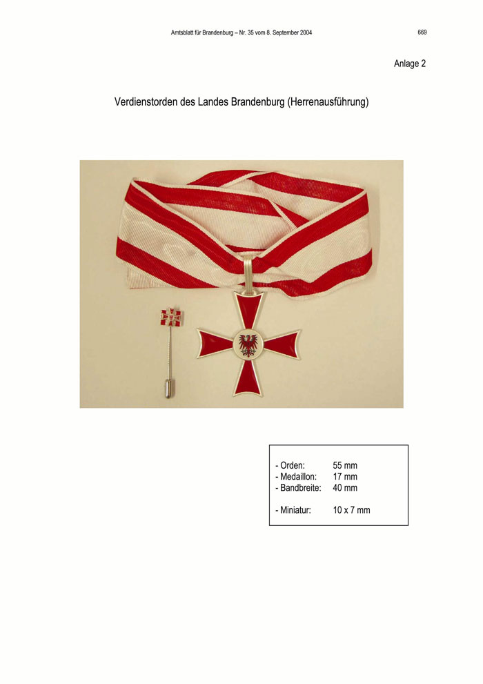 Official Journal of Brandenburg - No . 35 of 8 September 2004